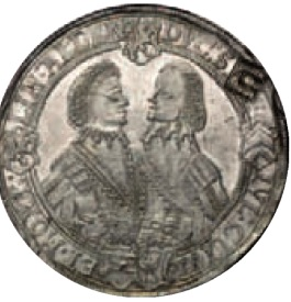 Coin celebrating the wedding of Sophie Elisabeth of Brandenburg and Frederick William II, Duke of Saxe-Altenburg (1638)